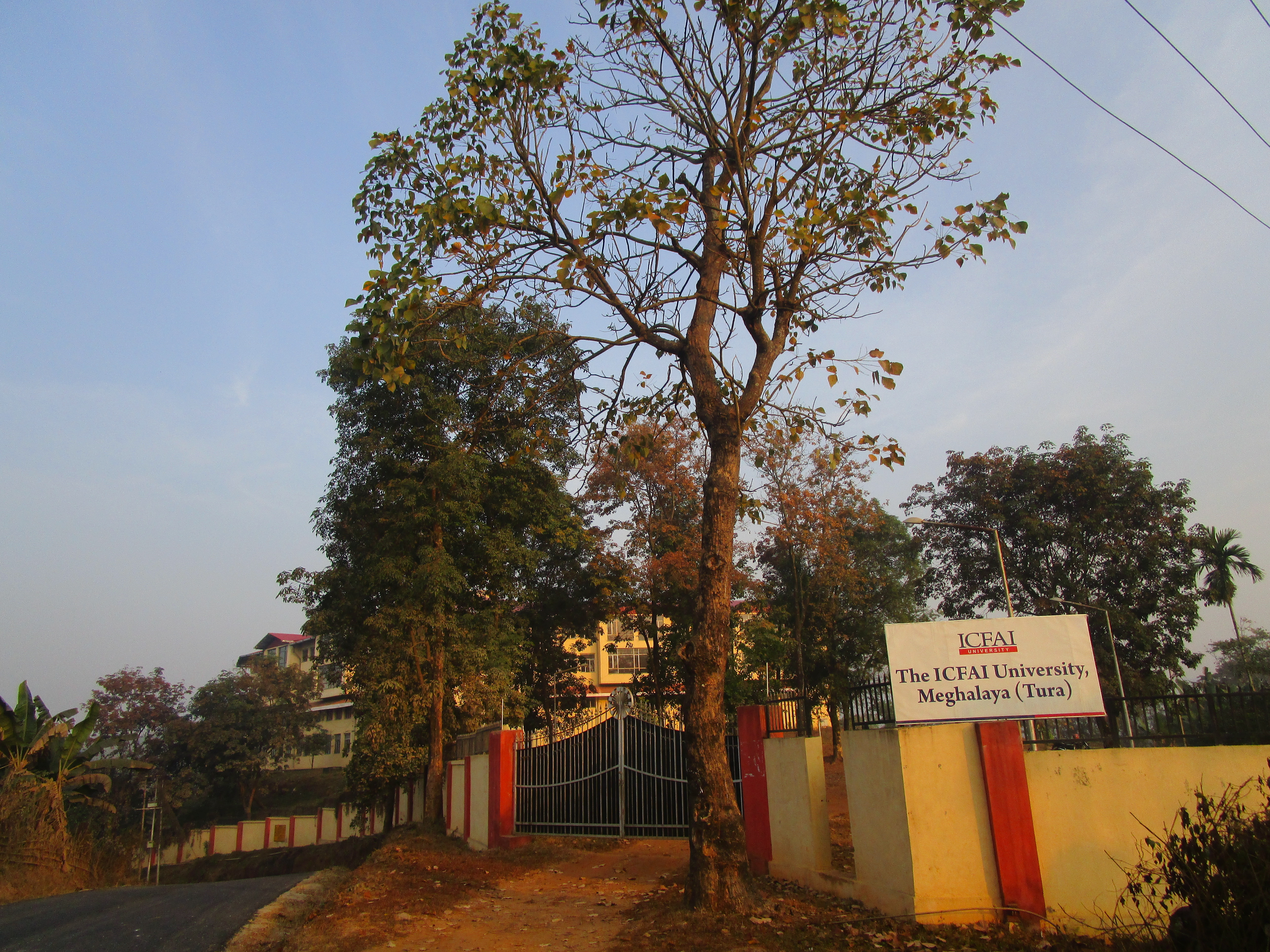 ICFAI University at Tura, Meghalaya.